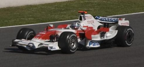 Jarno Trulli driving for Toyota F1 at the 2008 Spanish Grand Prix.